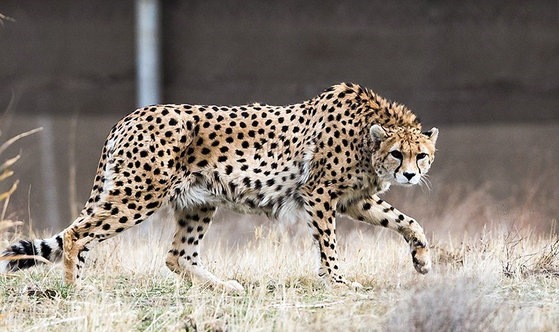 Kooshki, male Asiatic cheetah in Iran.